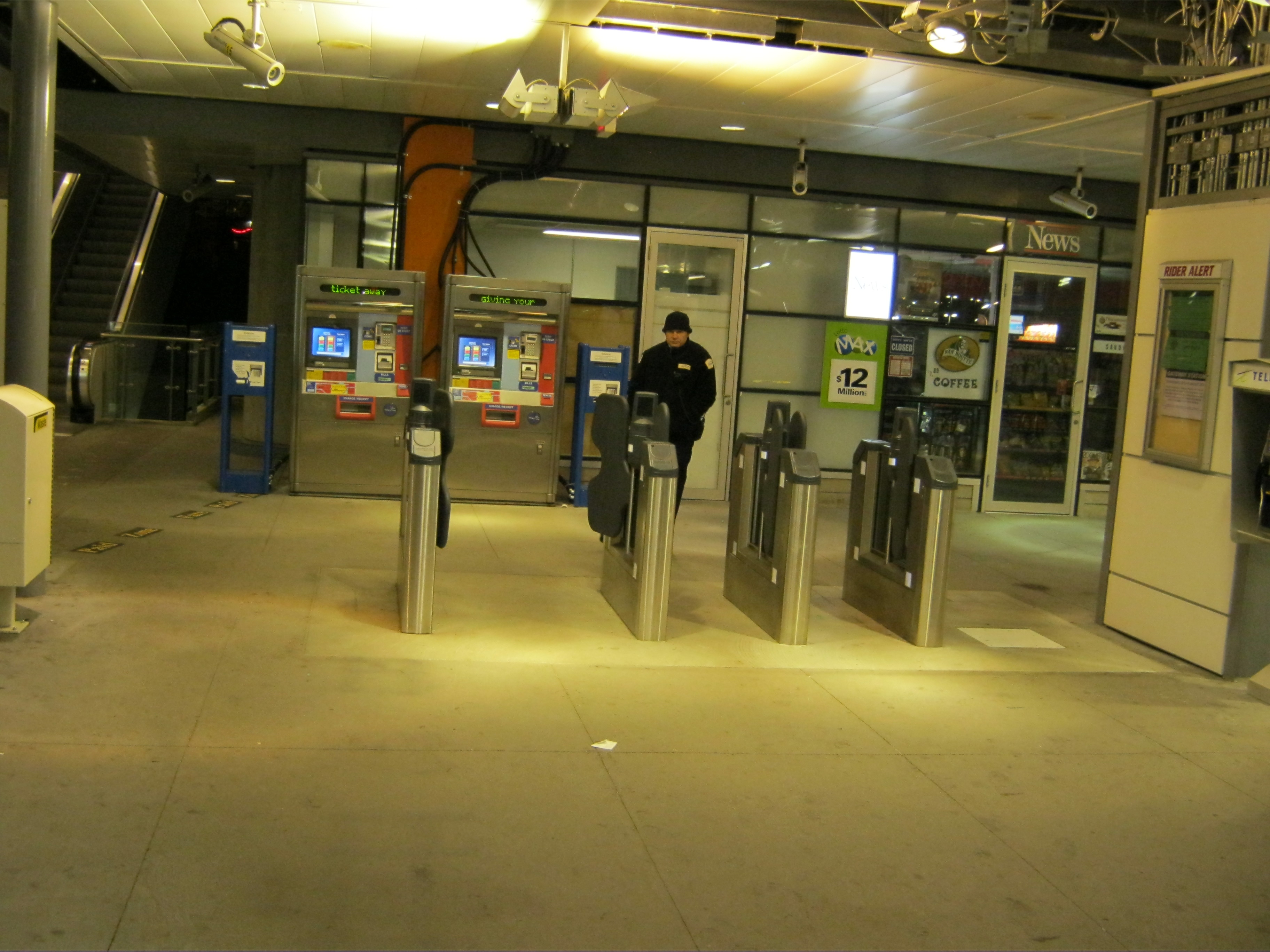 File from MetroRailRoad. States that file is licensed under Creative Commons ShareAlike 3.0